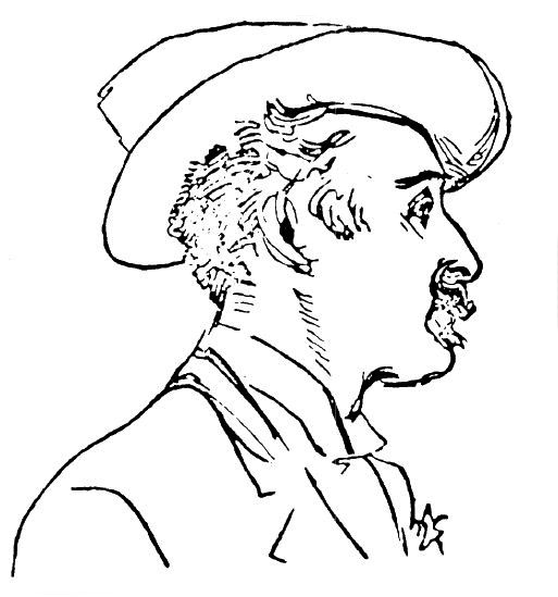 Sketch of the composer Frederick Delius by Christian Krohg for a Norwegian newspaper, Verdens Gang, Christiania, Norway, 23 October 1897.[1]